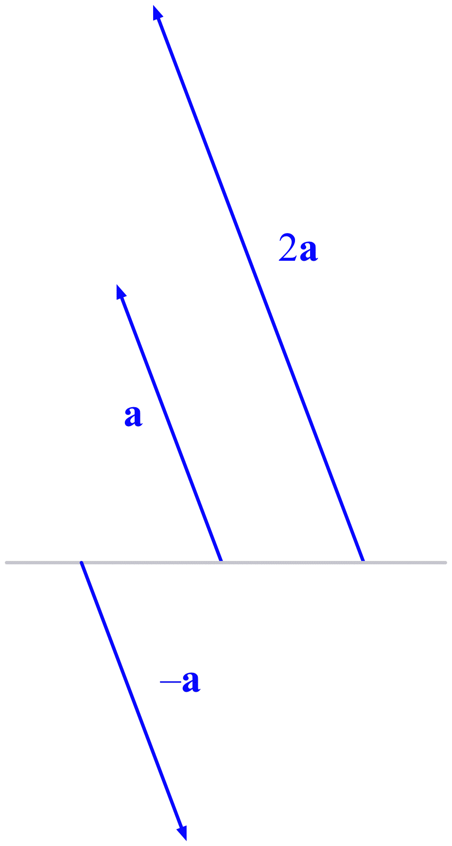 Diagram showing the scalar multiplications 2a and −a of a vector a.